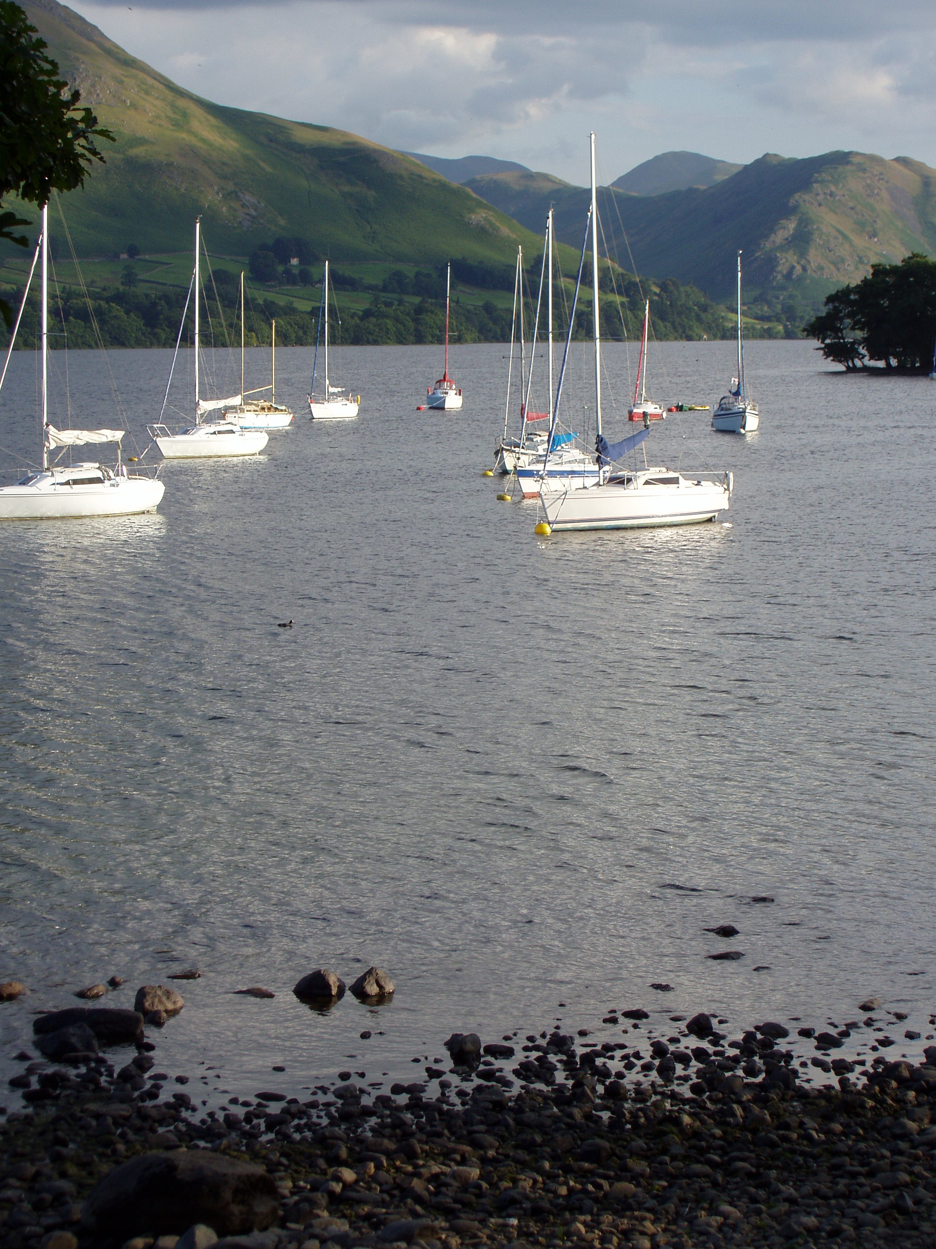 Lake District view (England) with boats and hills